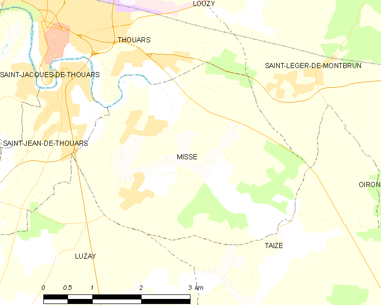 Map of French municipality Missé